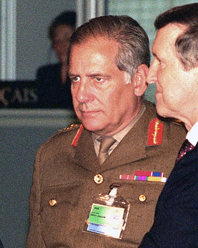 General Charles Guthrie in Maastricht, Netherlands, for an informal NATO Defense Ministers' Meeting. US Secretary of Defense William S. Cohen is on right.